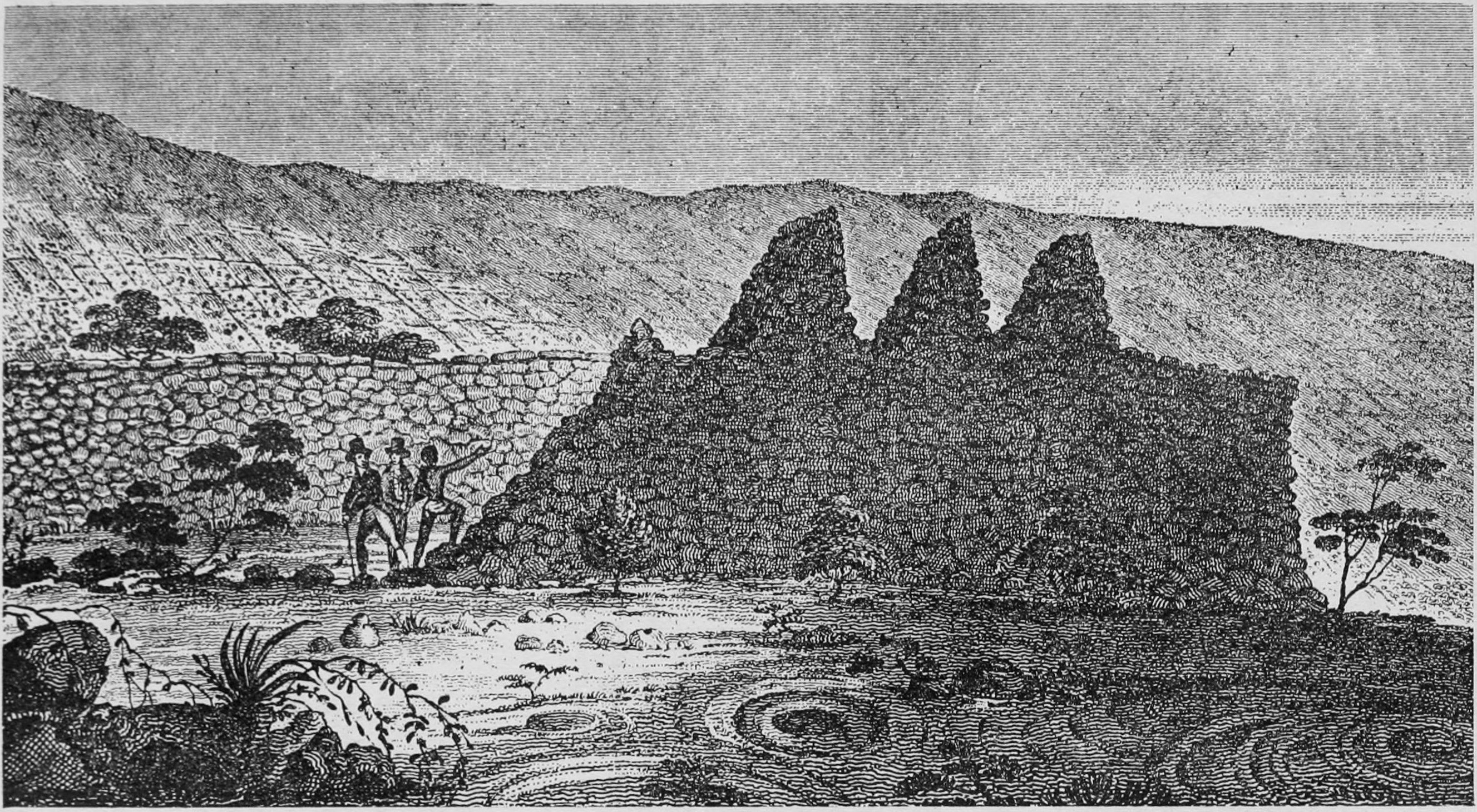 Ruins of an ancient Fortification, near Kairua. Engraved by T. Dixon after a sketch by William Ellis. Illustration from Missionary William Ellis' journal, from Ellis' tour through Hawaii from 1822 to 1823. This is from the second and third London edition published in 1826 and 1827 and later reprinted in 1917.